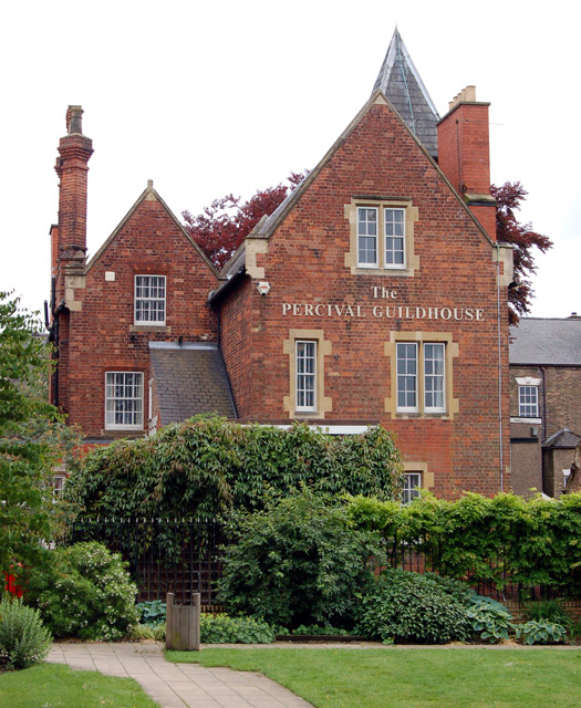 The Percival Guildhouse, Rugby.The Percival Guildhouse is a centre for adult education. The house itself was built in the 19th century. For many years it was the home of Matthew Bloxam, a Rugby antiquarian. In 1925 the Percival Guild was formed to promote adult education in Rugby. The Guild was named after Bishop Percival, a former headmaster of Rugby School and Bishop of Hereford who was a pioneer of adult education. The Percival Guildhouse website is here [1] .